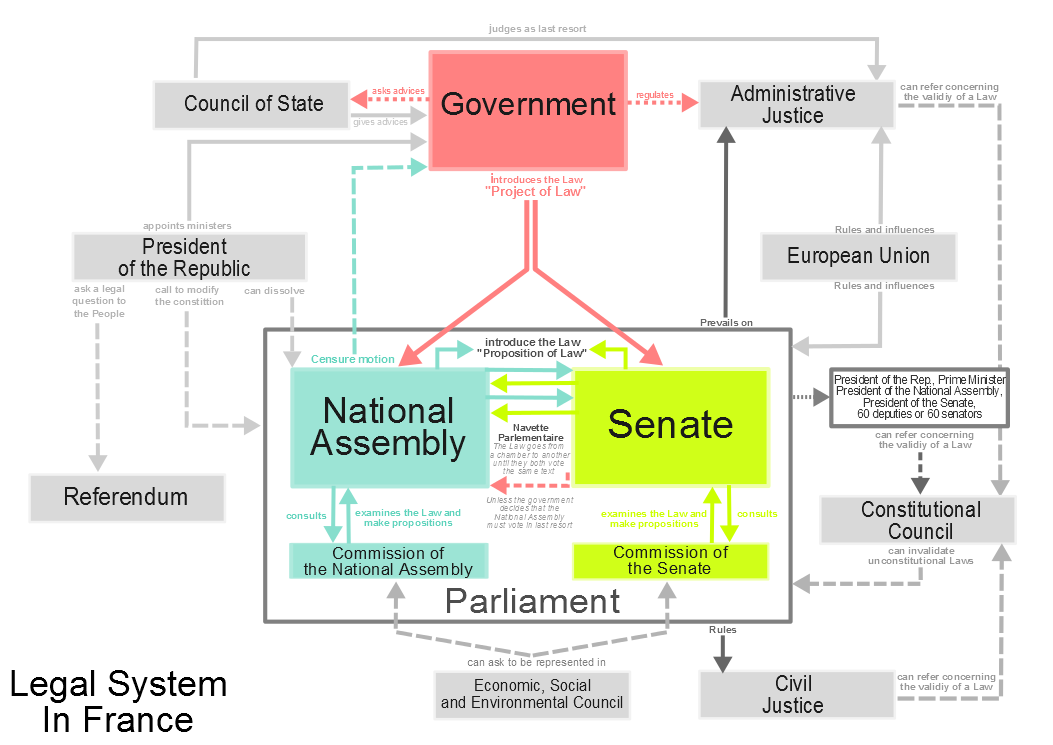 Plan of the French legislative system